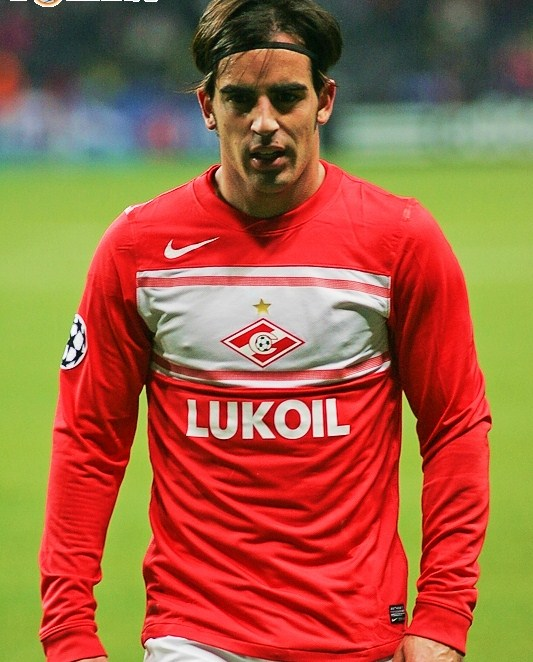 José Manuel Jurado Marín